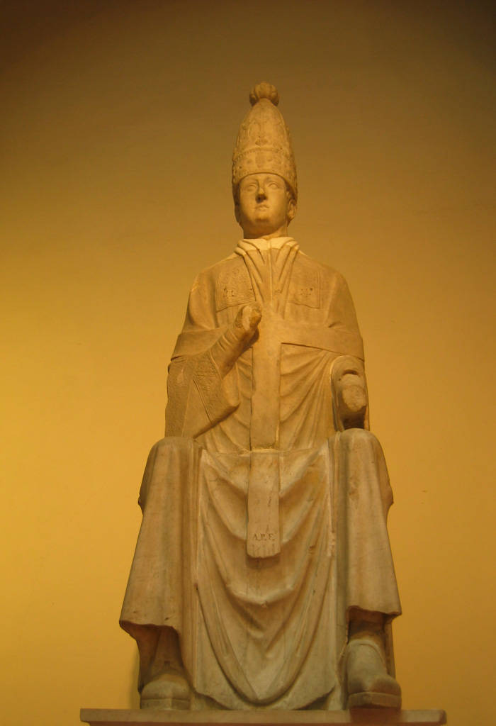 Statue of Pope Boniface VIII, The Museum of the Opera del Duomo, Florence - Taken summer 2003 with Canon Powershot S45